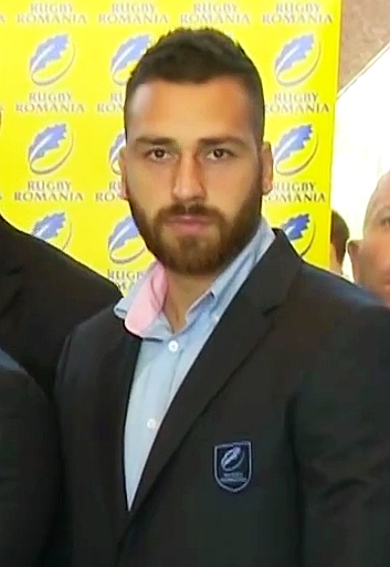 Romanian international rugby union player, Mădălin Lemnaru, is seen during a press conference in September 2015 shortly before departing for the 2015 Rugby World Cup